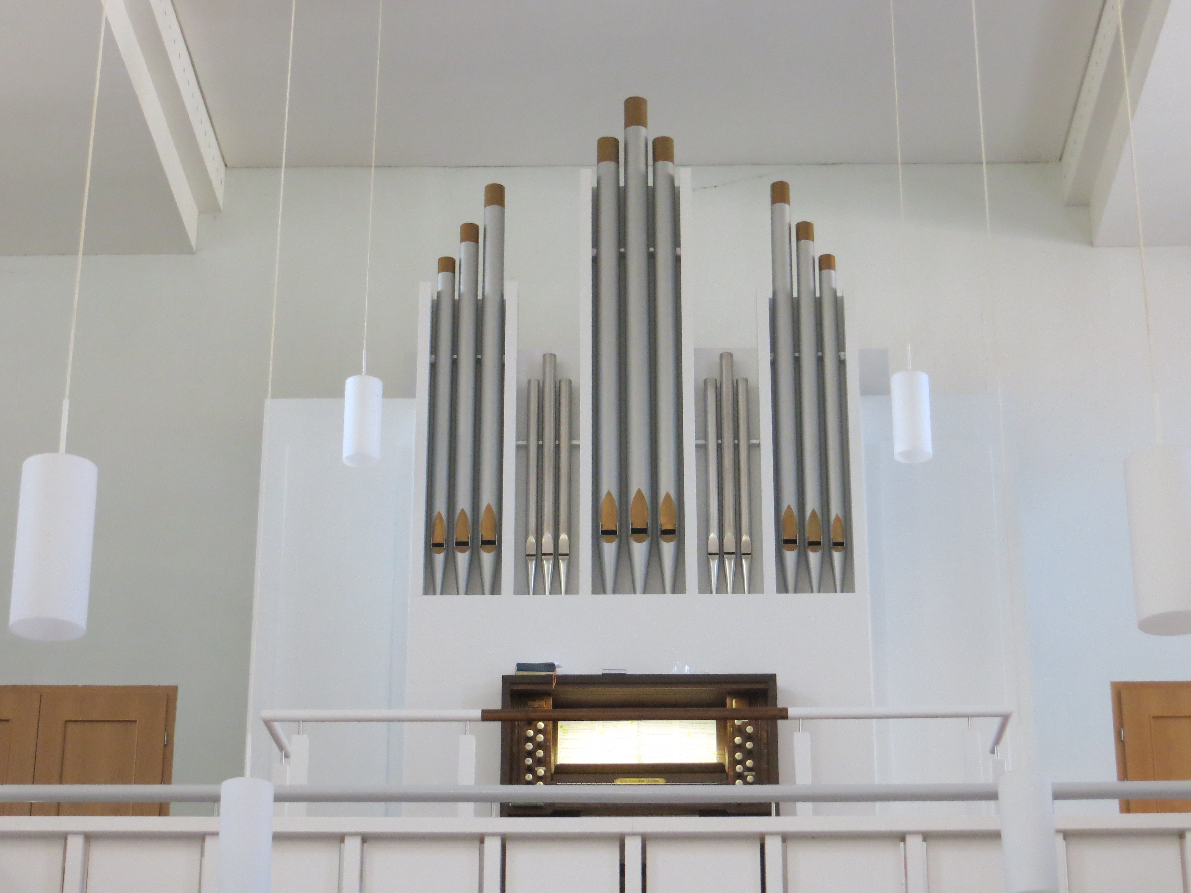 Bryceson organ in Seelow church